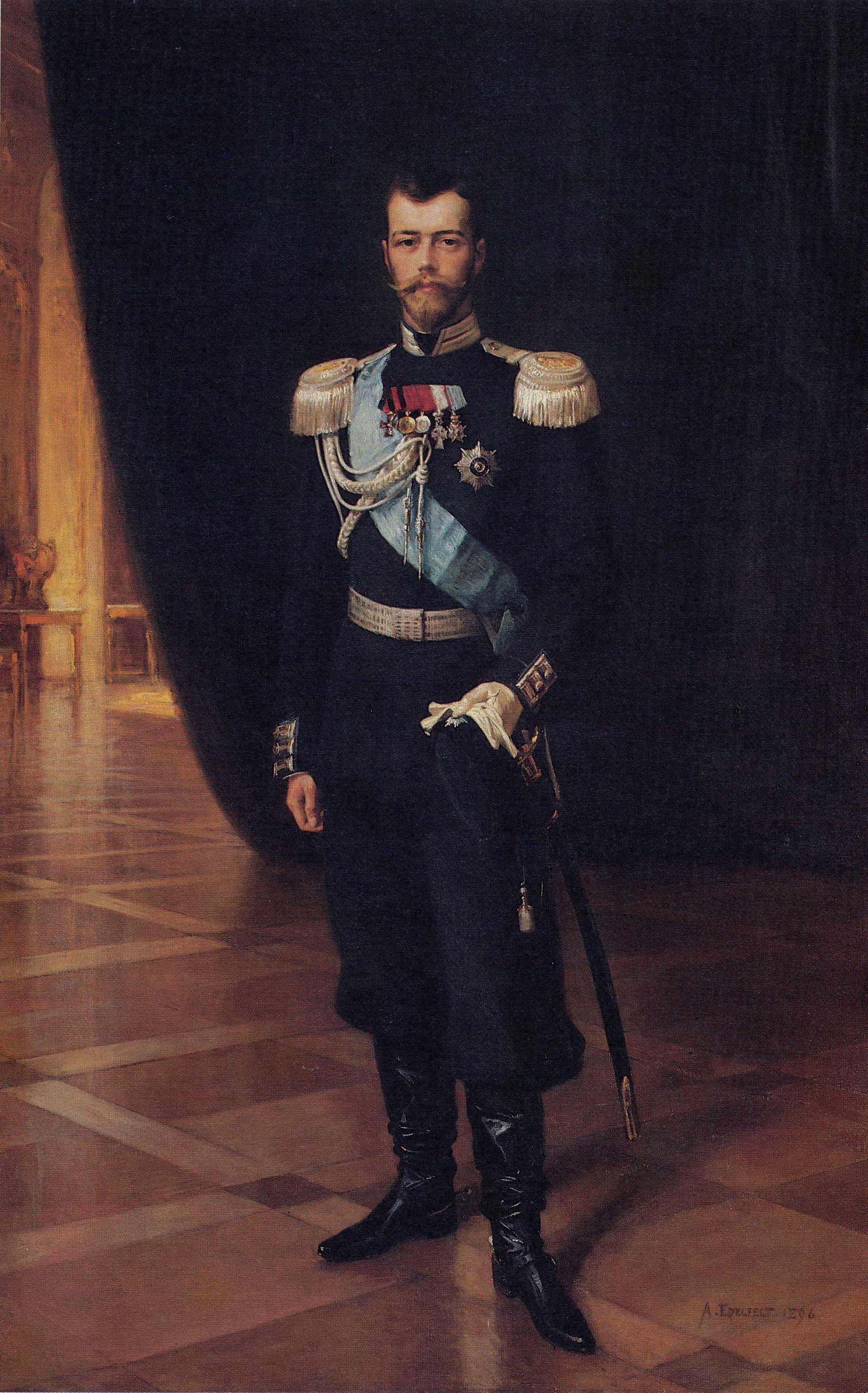 Portrait of Russian emperor Nicholas II by Albert Edelfelt, painted for Helsinki University. A copy was later made by Edelfelt for the Imperial Senate of Finland.